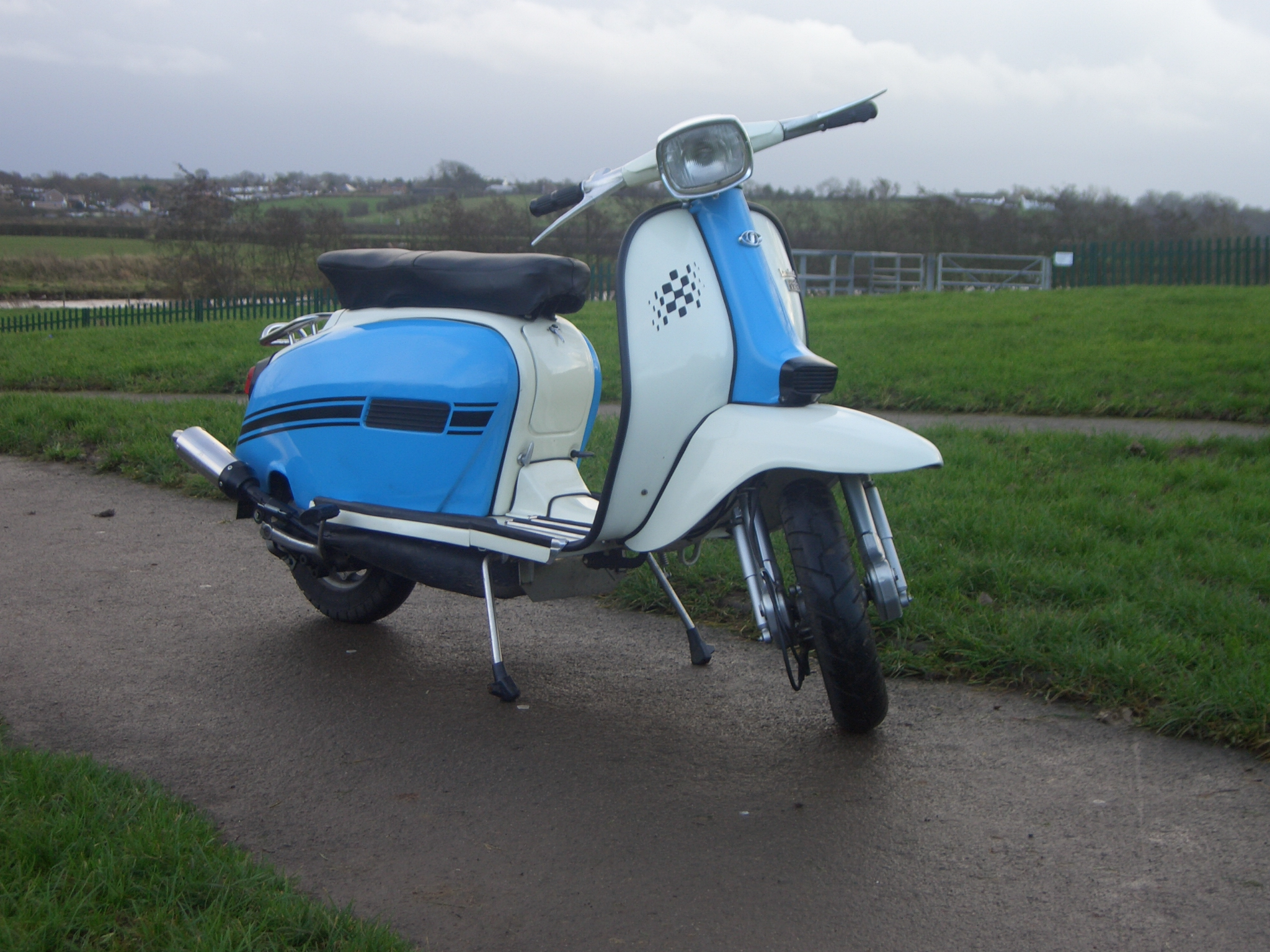 An Italian Lambretta DL (GP) 150